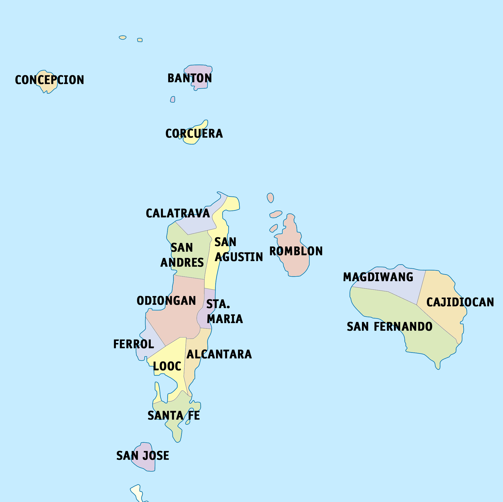 Political map of Romblon , Philippines